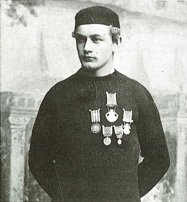 Norwegian speedskater Oscar F. Fredriksen.